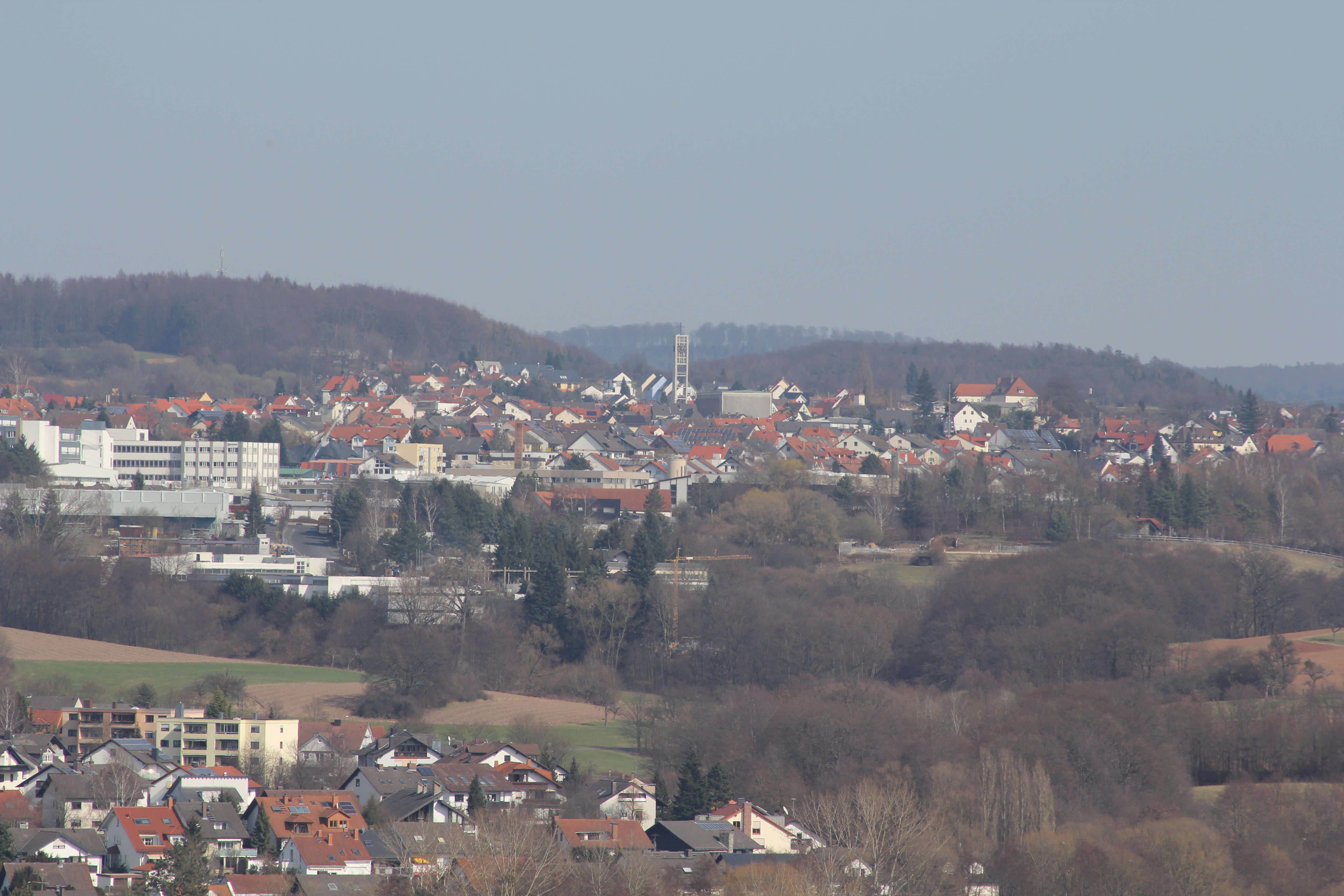 Haibach village in Lower Franconia, Bavaria, Germany, shot from the Erbig hill